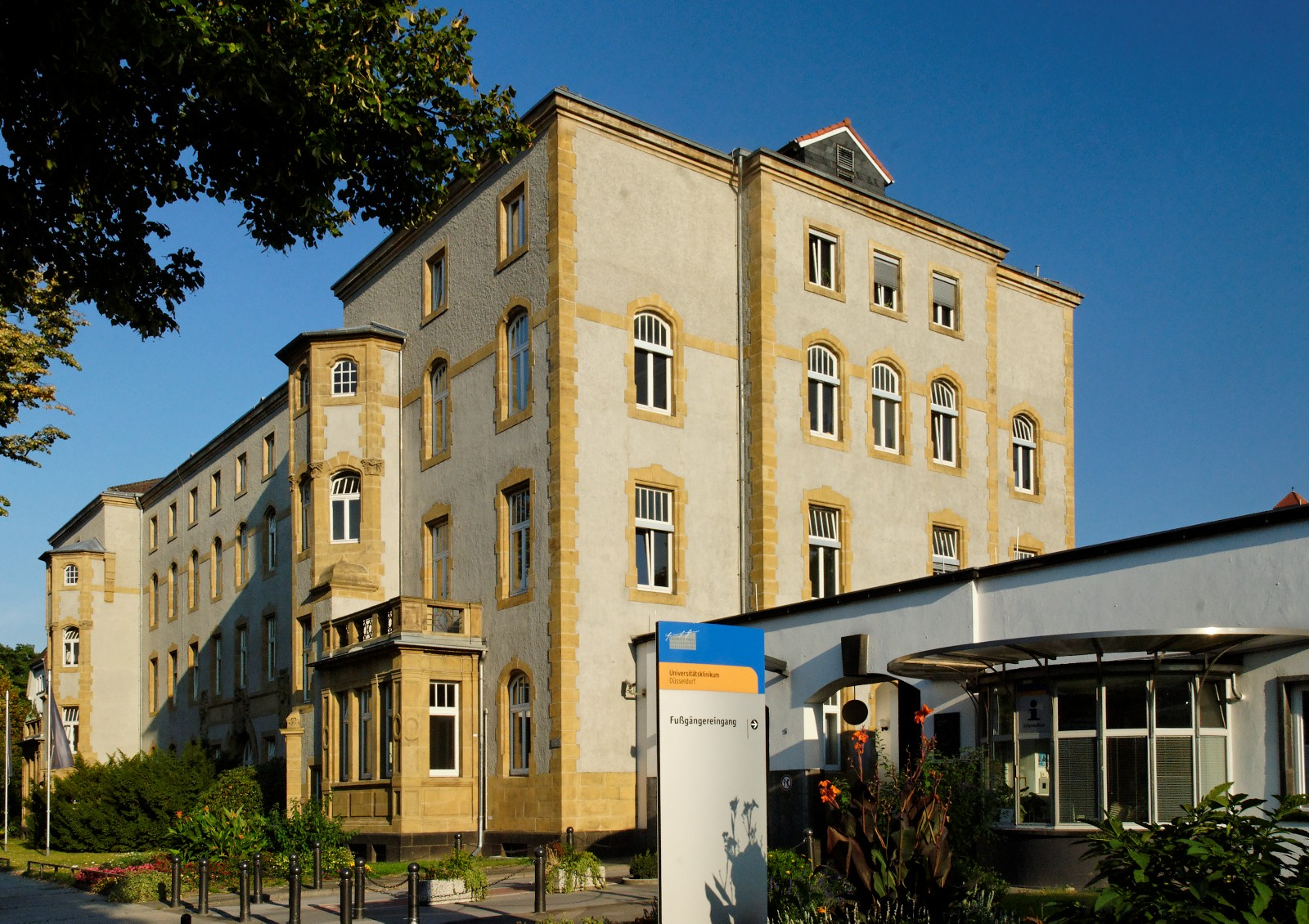 Administration and pedestrian entrance of the university hospital in Düsseldorf-Bilk, Germany